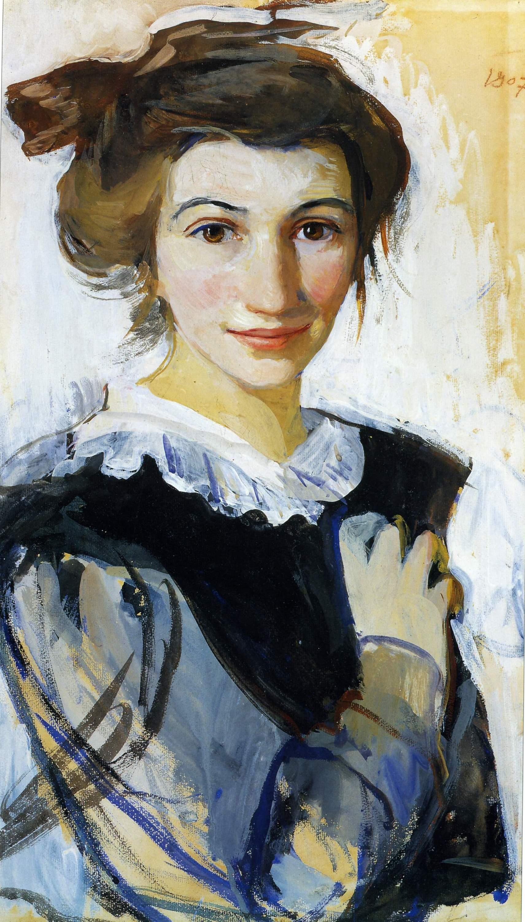 Self-portrait in black dress with white collar (aquarelle, white lead and gouache by Zinaida Serebriakova, 1907)